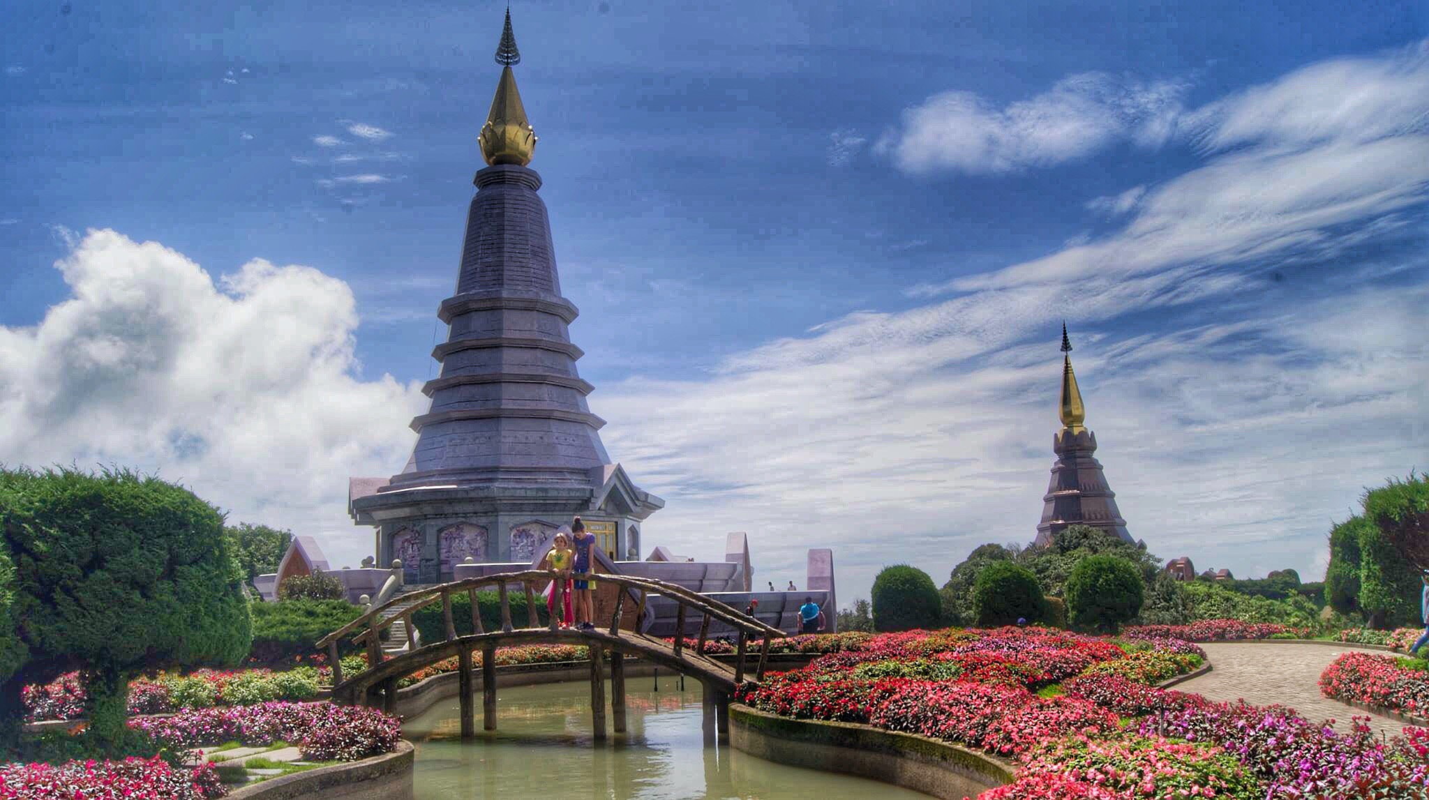 Pagodas dedicated to the King and Queen of Thailand, situated at the highest point in the country in Doi Inthanon National Park